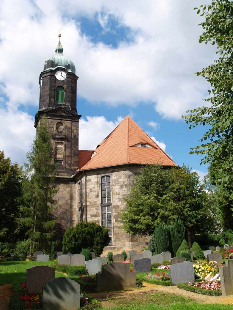 Church in Lohmen (Landkreis Sächsische Schweiz), Germany